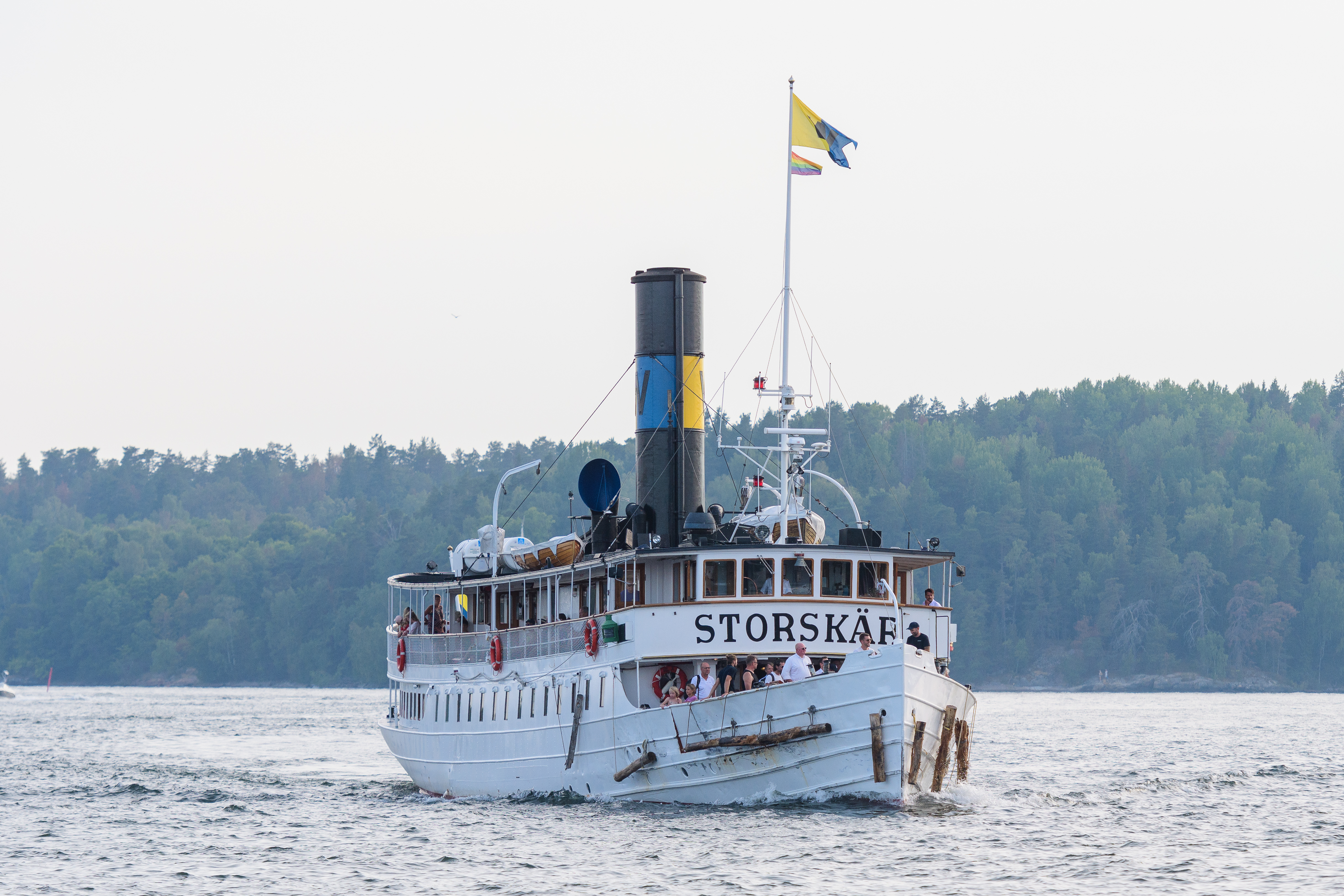 Storskär, a historic steamship built 1908 and still in regular traffic in Stockholm archipelago. This is an image of a protected Swedish ship, with call sign SGPD .